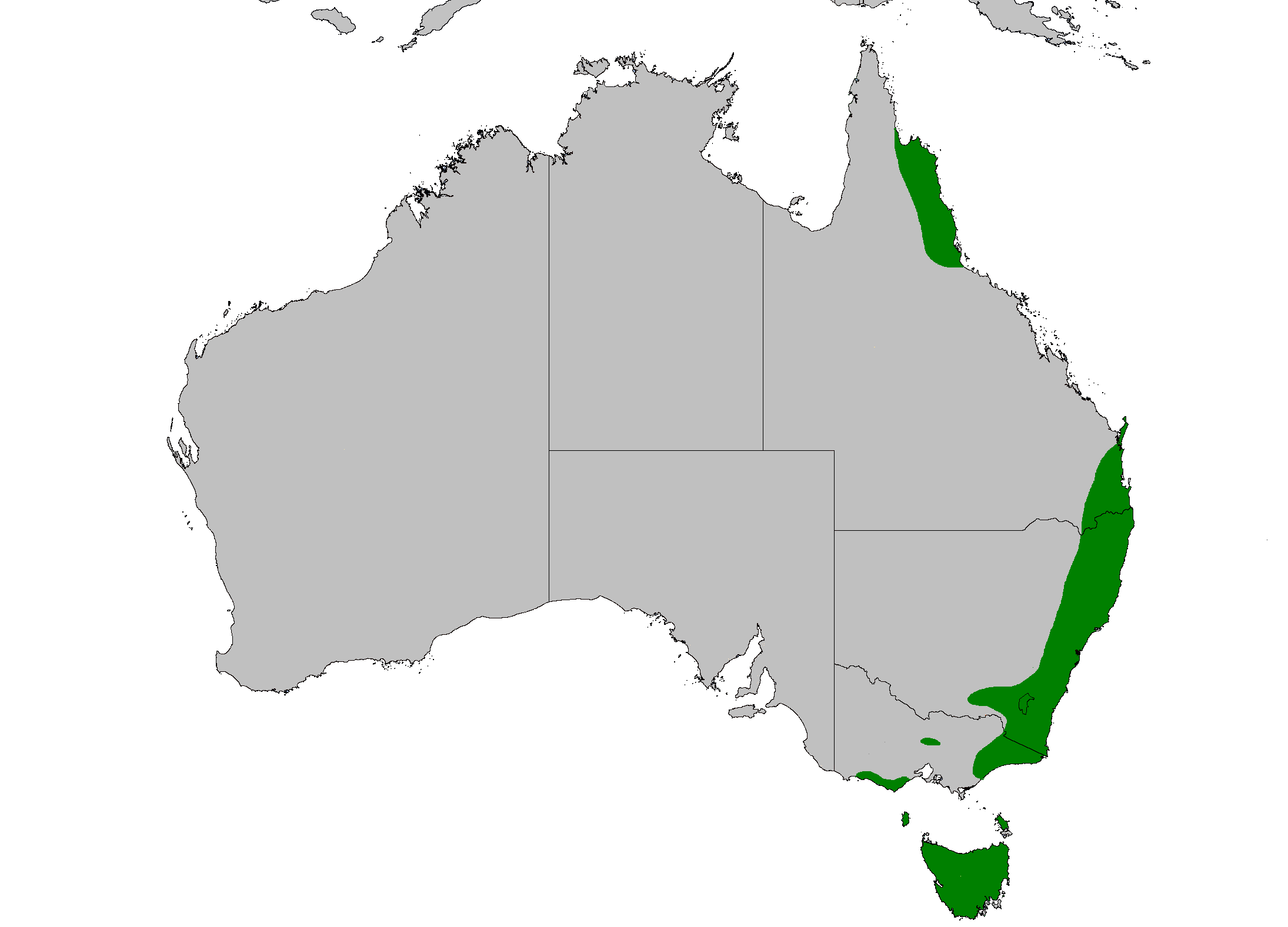 range map of spotted-tailed quoll (Dasyurus maculatus)